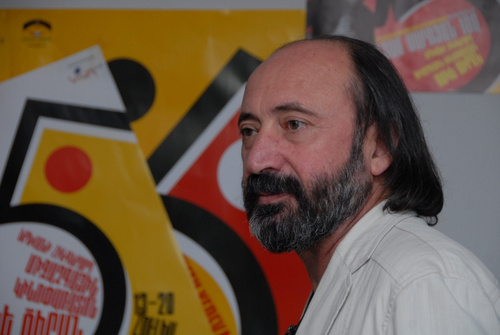 Director of the 5thGolden Apricot International Film Festival